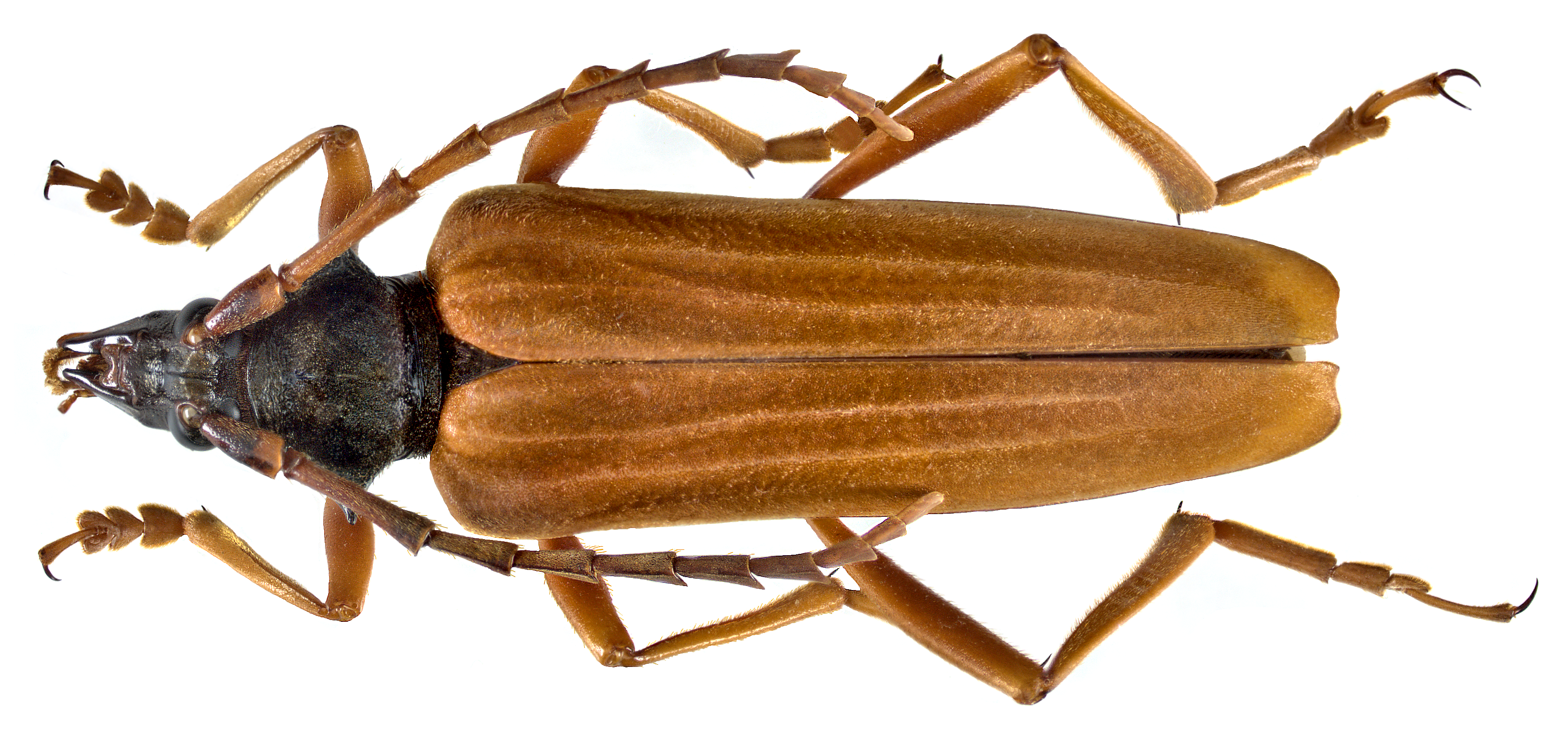 Family: Cerambycidae Size: 48 mm Location: Indonesia, Sumatra, Lapai leg. Widagdo, IV.1998 Coll. A.Skale Photo: U.Schmidt, 2013